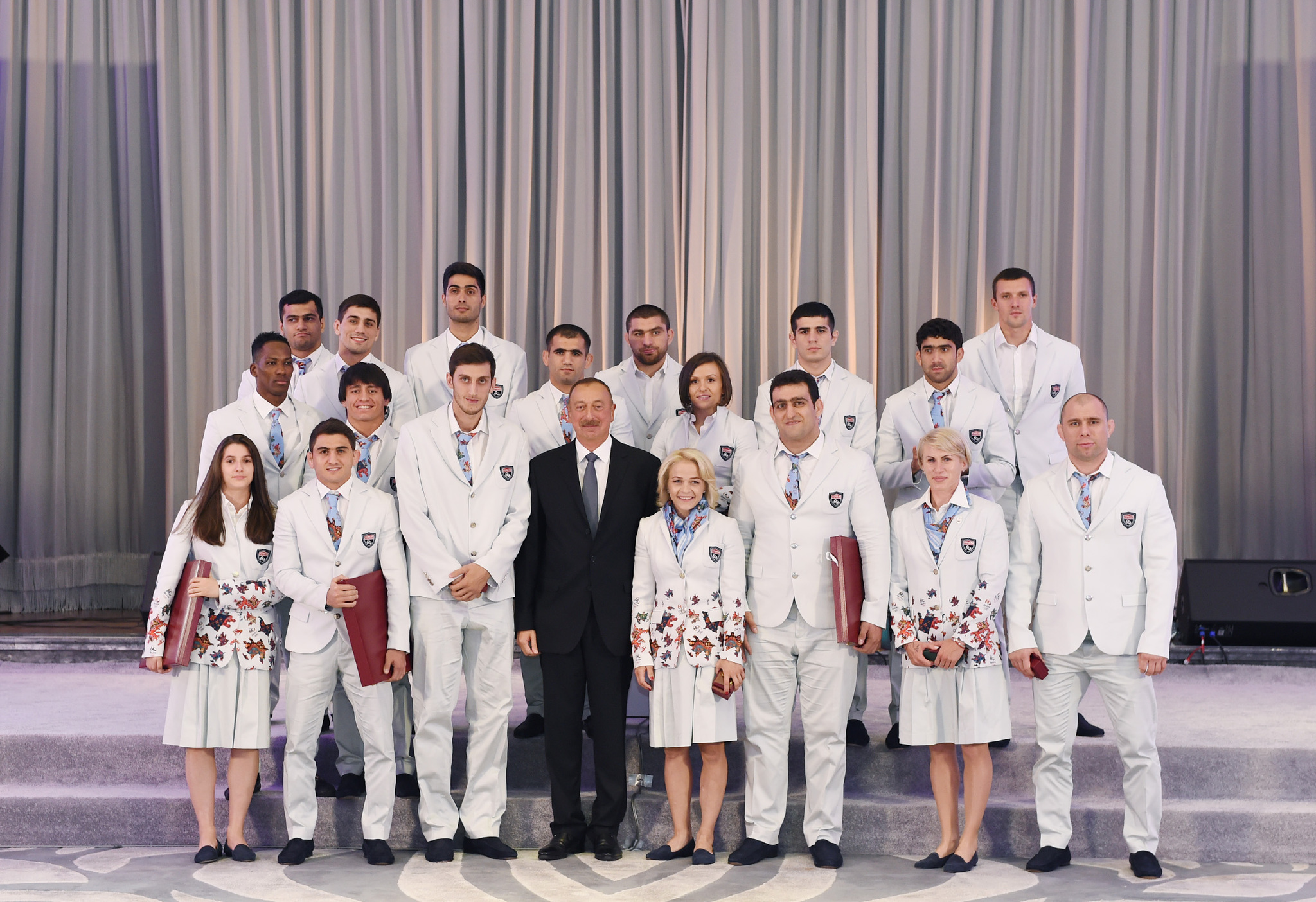 Ilham Aliyev met with athletes who competed in 31st Summer Olympic Games (Ilham Aliyev and all medalist)